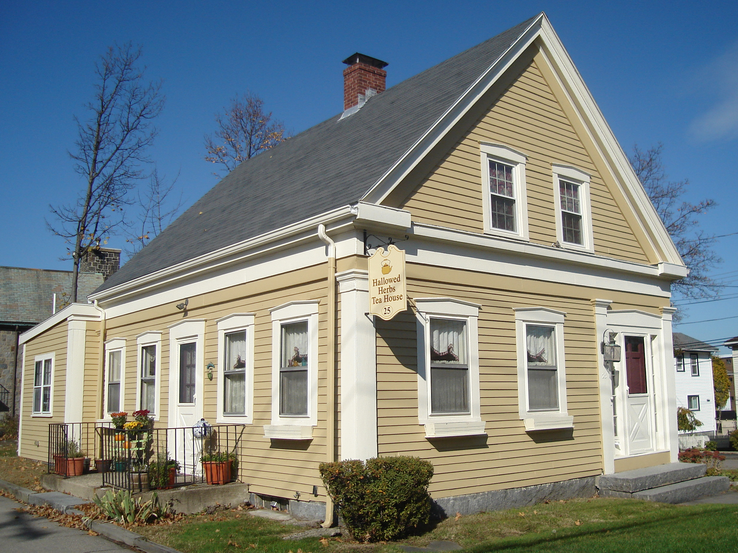 The House at 25 High School Avenue in Quincy, Massachusetts, built in 1850 and added to the National Register of Historic Places in 1989. External link